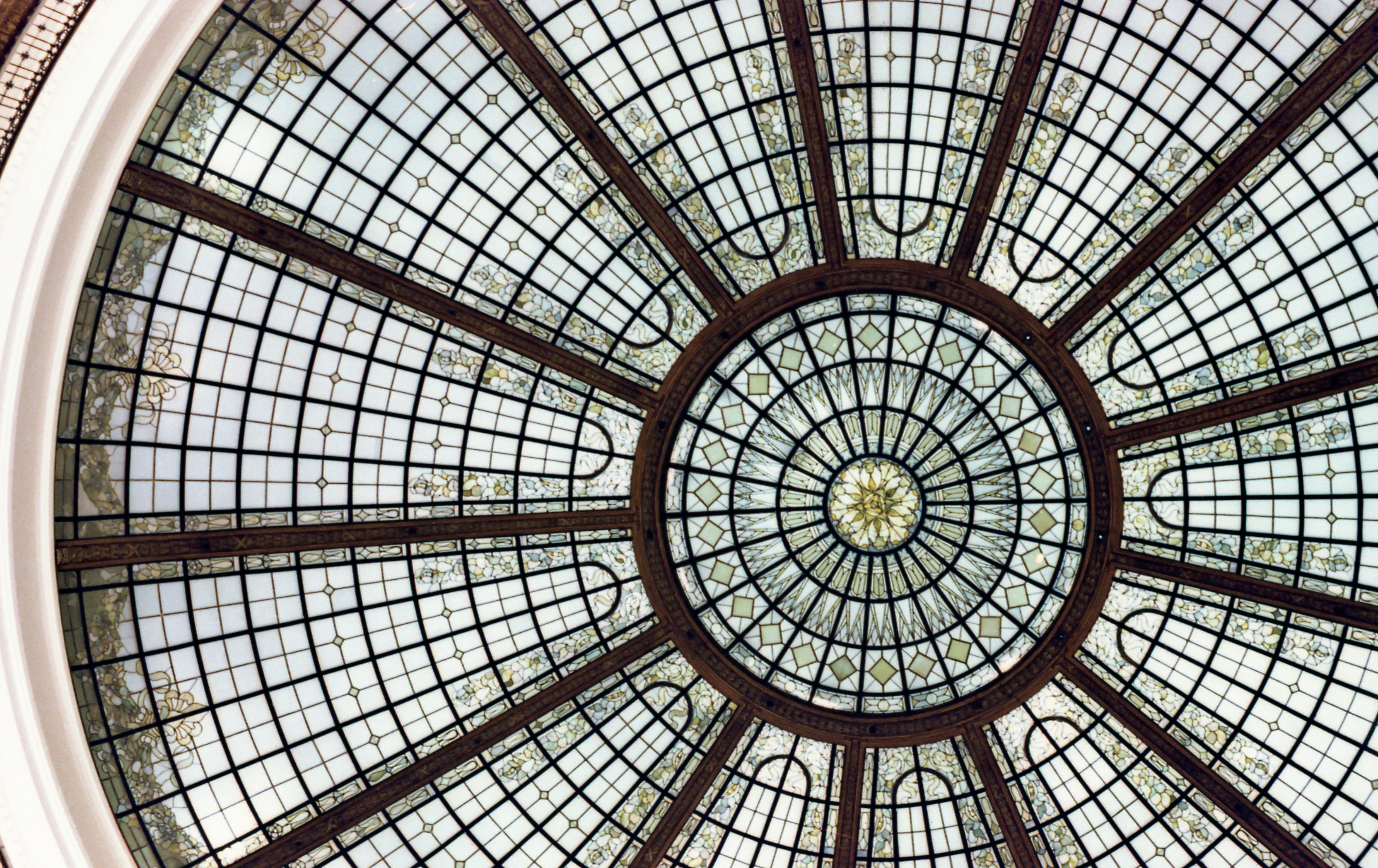 Inside the Cleveland Trust Company Building looking up at the dome. A beautiful Stained glass dome.